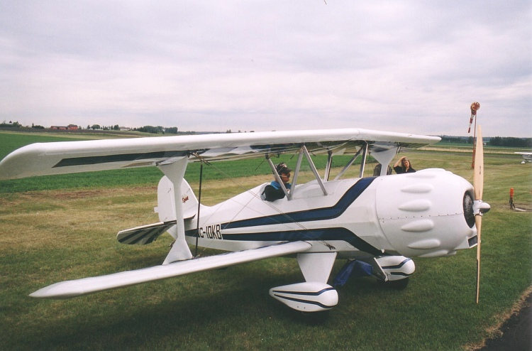 I took this photo of a Murphy Renegade Spirit biplane at Lacombe in 1998.